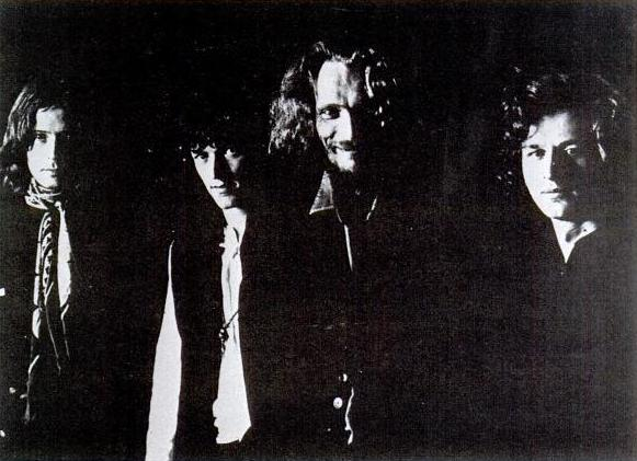 Promotional image of rock banda Blind Faith.